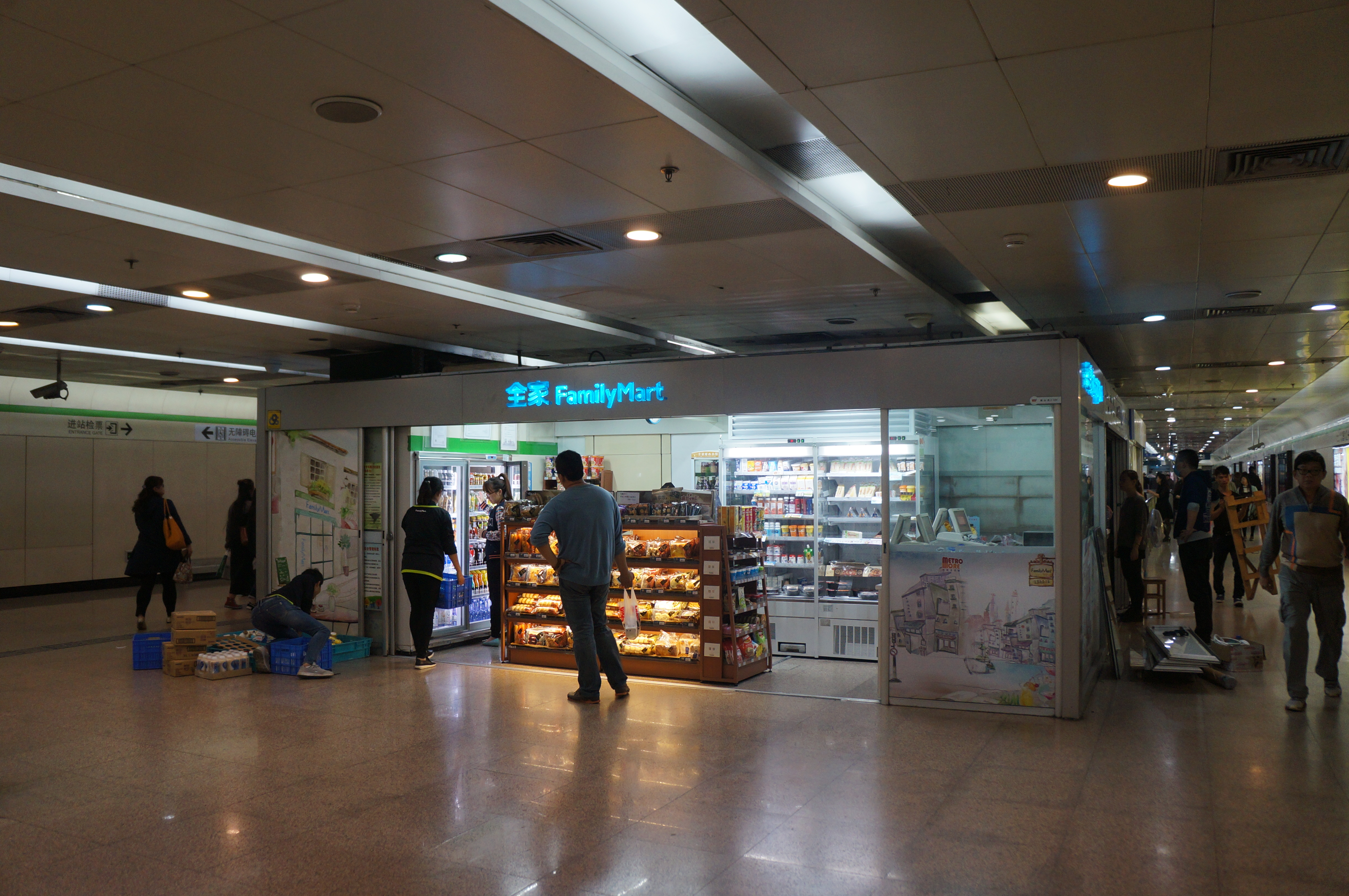 201611 FamilyMart store at Loushanguan Road Station